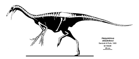 Skeletal restoration of Harpymimus okladnikovi